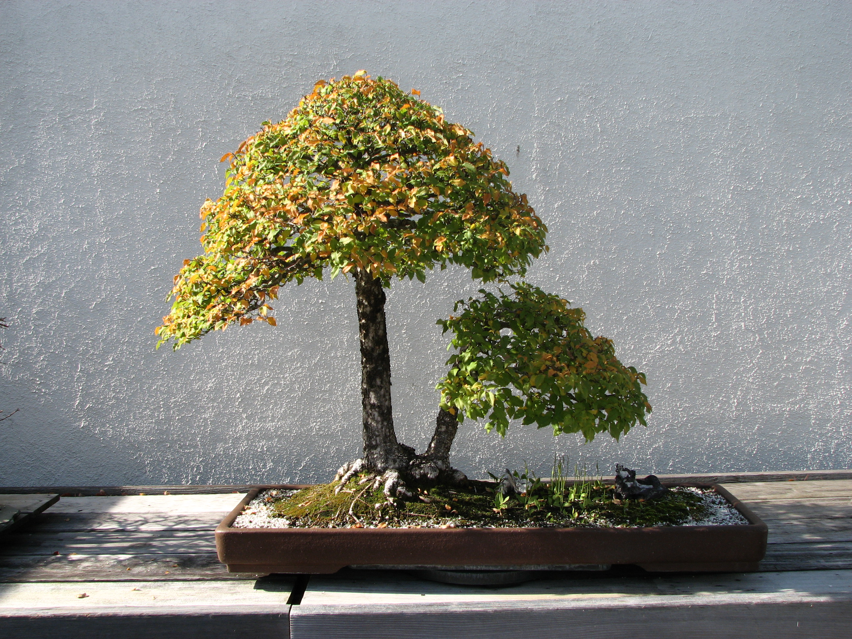 United States National Arboretum (National Bonsai & Penjing Museum), Washington DC